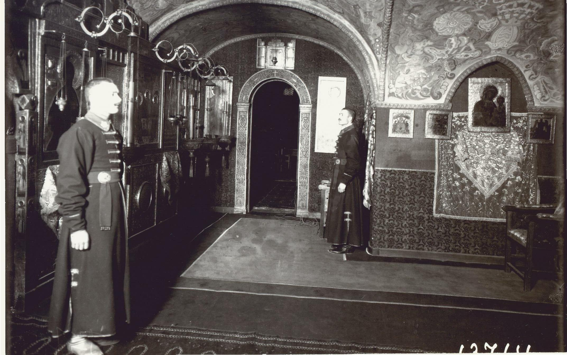 Tsarskoye Selo (Russia). Feodorovsky Sovereign's Cathedral.